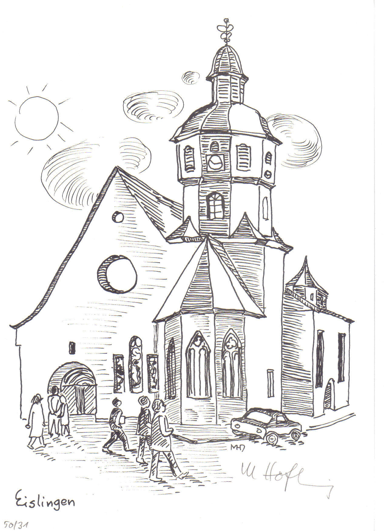 Eislingen, ink drawing, 20 x 30 cm